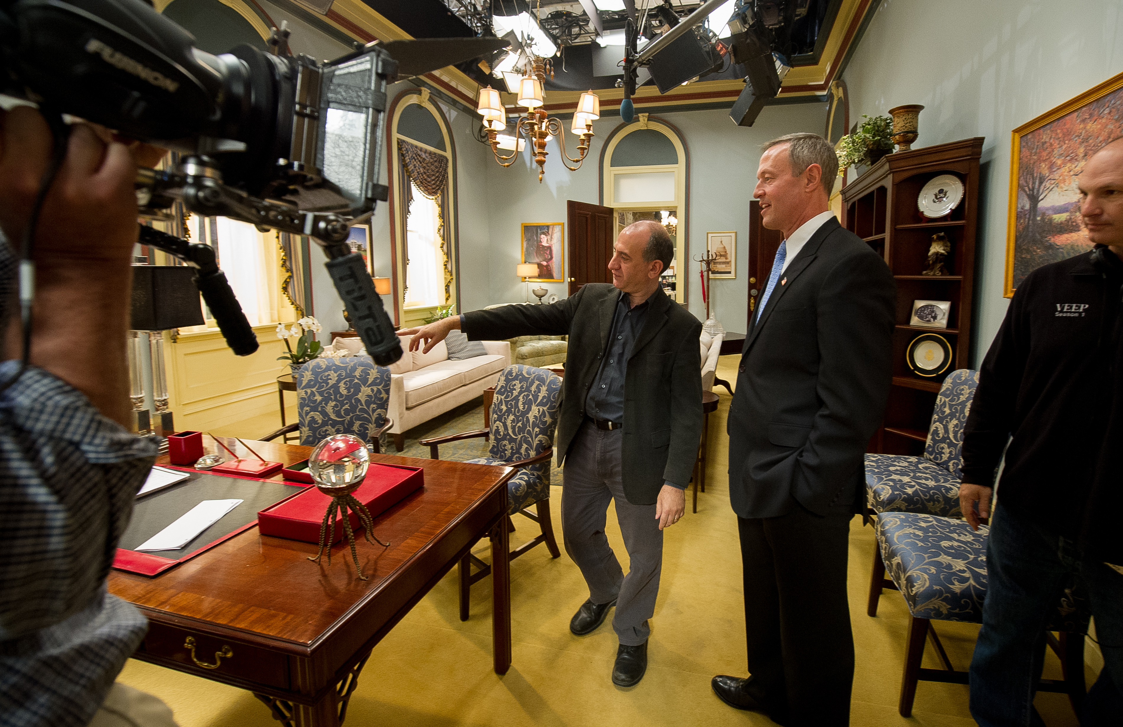 Columbia Tours the Veep Set. by jay Baker at Columbia, MD. Maryland Gov. Martin O'Malley visiting the set of Veep in Columbia, MD in 2013.